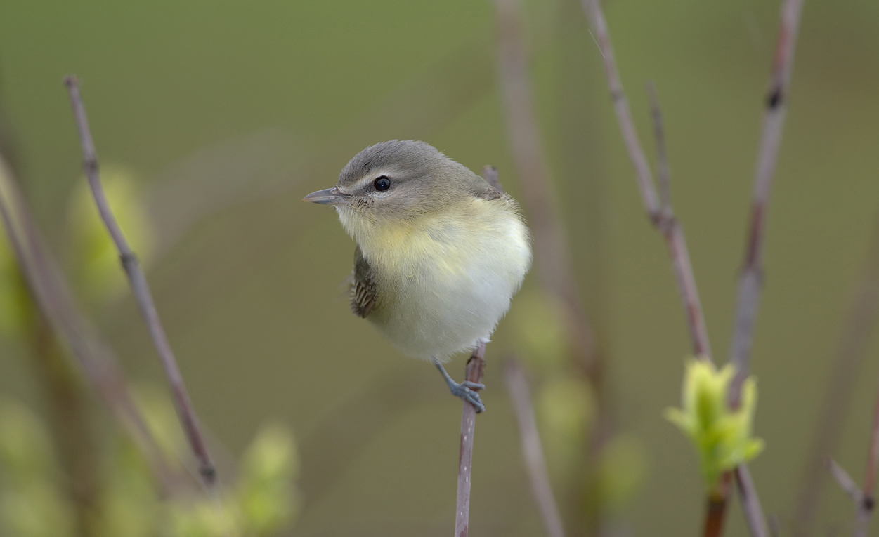 Philadelphia vireo